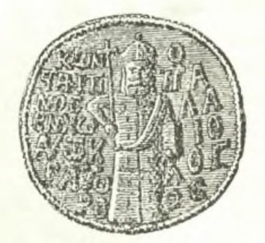 Seal of the last Byzantine Emperor, Constantine XI Palaiologos